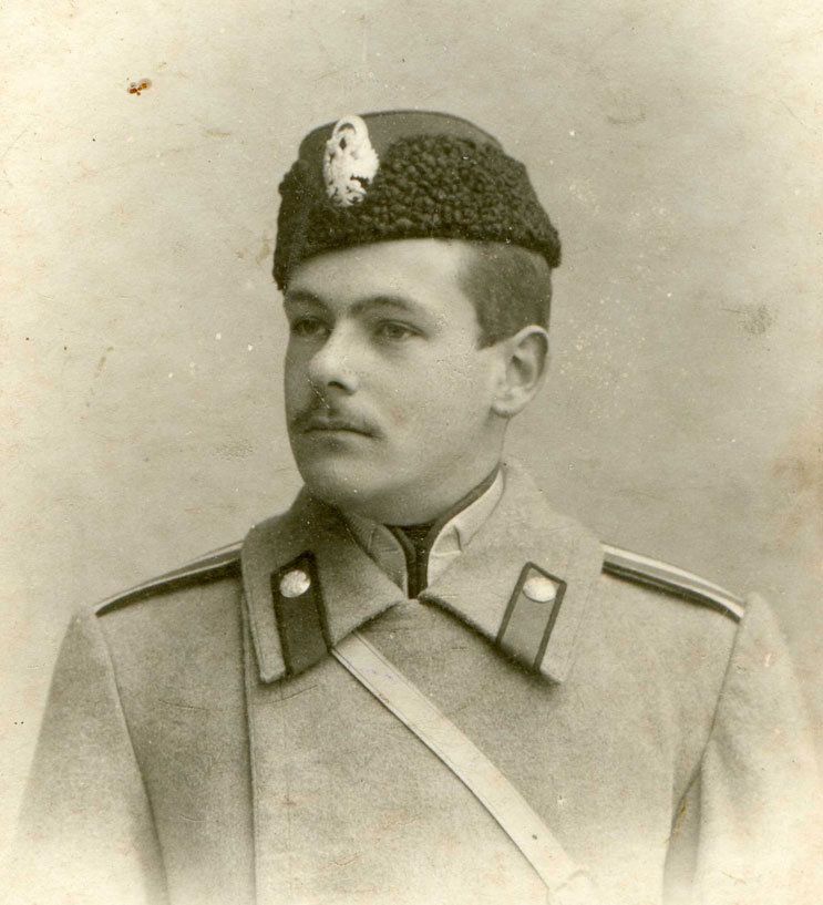 The Tver cavalry school. Сadets.